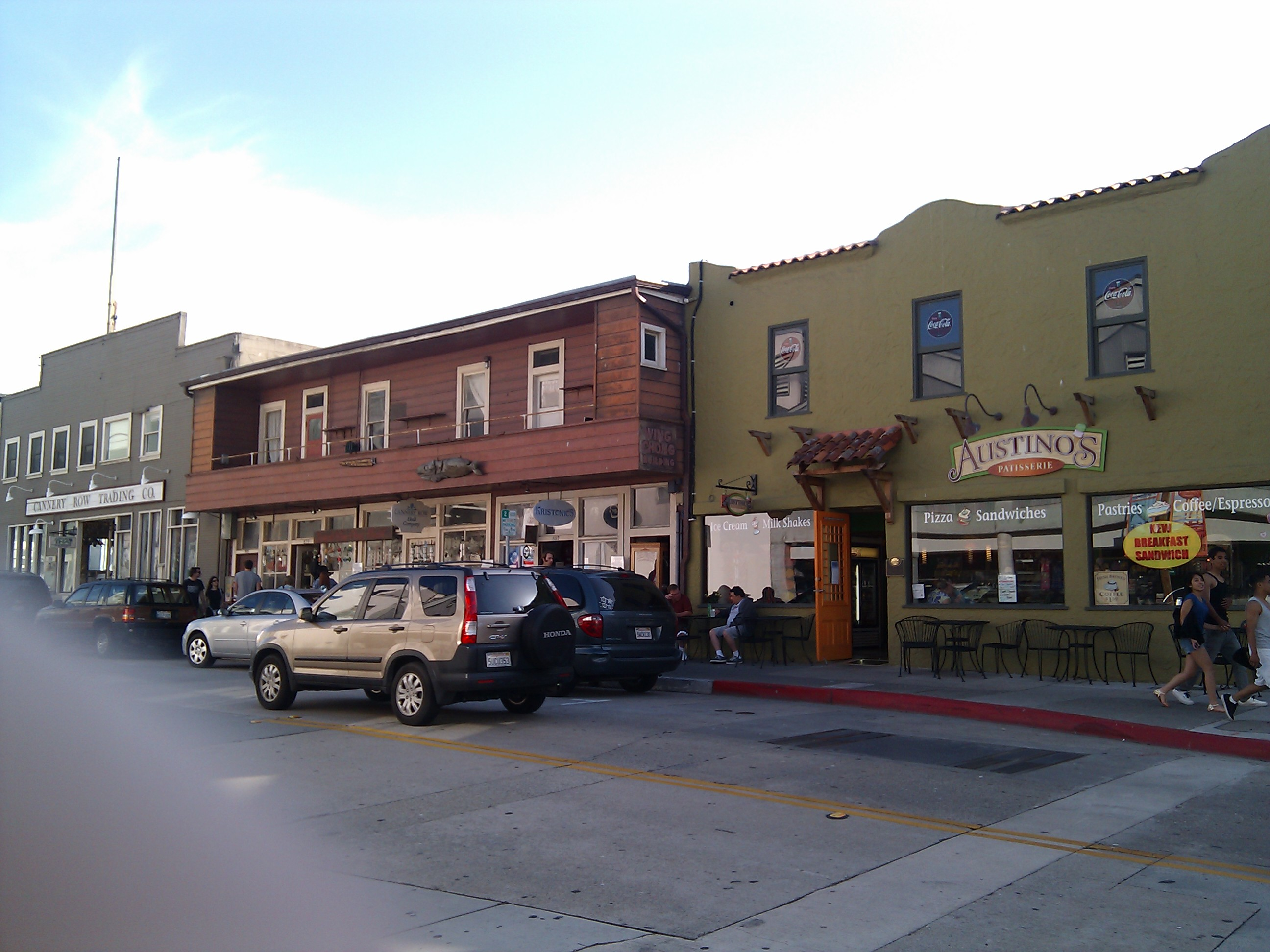 monterey cannery row